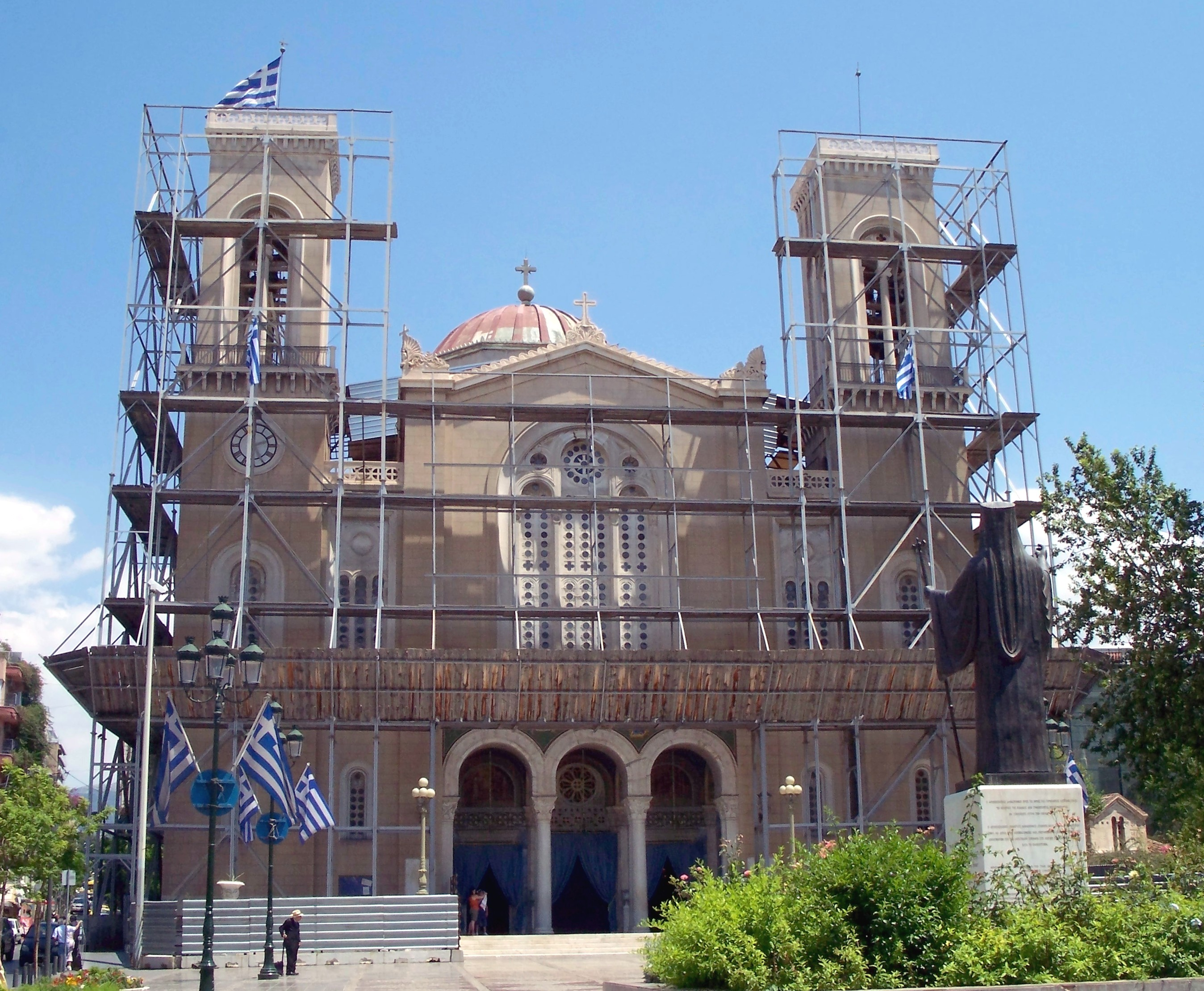 The Metropolitan Cathedral of Athens